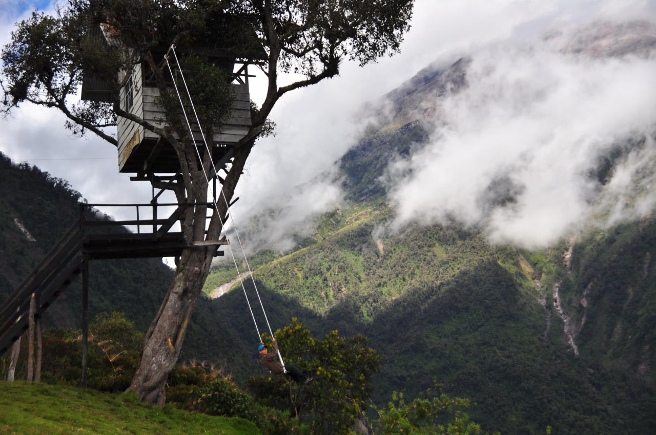 La Casa del Árbol (The Treehouse) Swings in Ecuador. La Casa del Árbol (The Treehouse). Swing at the End of the World, Baños, Ecuador